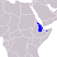 Equus africanus distribution map